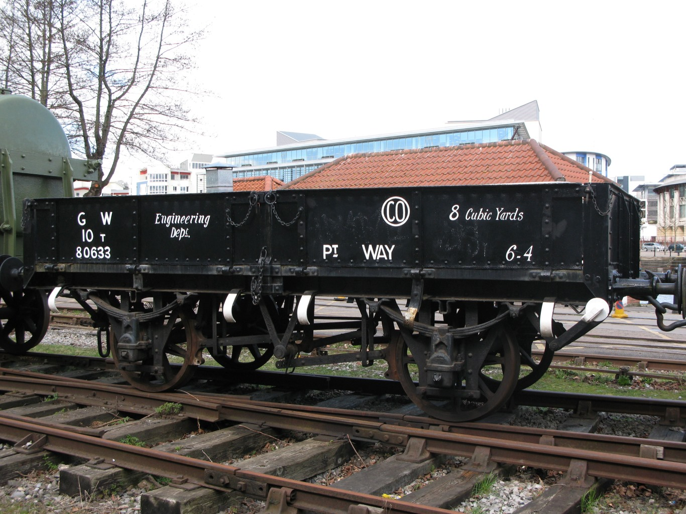 A former Great Western Railway ballast wagon now used on the Bristol Harbour Railway. Diagram P15, running number 80633.